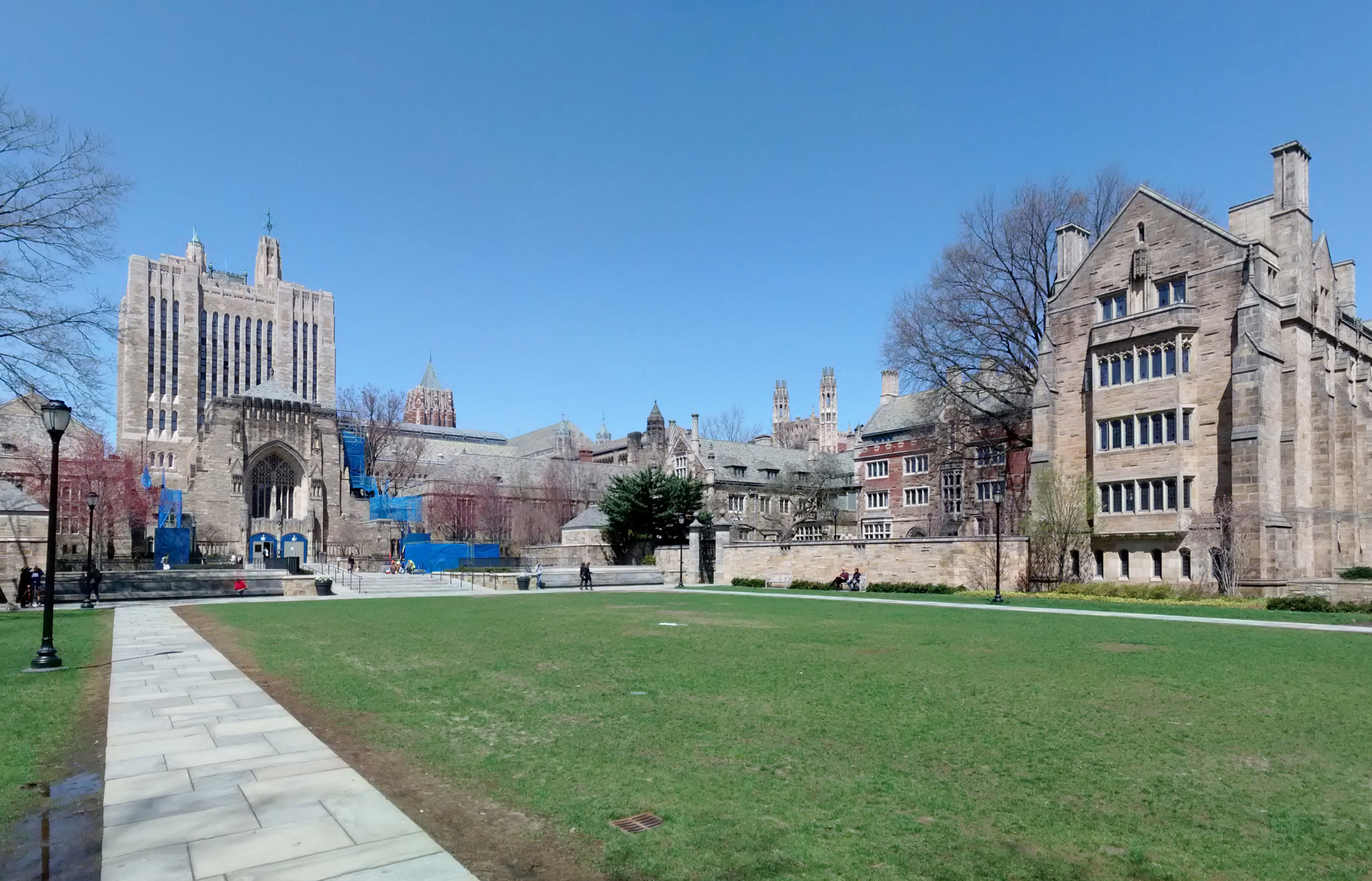 Sterling Memorial Library (left), Anne T. & Robert M. Bass Library (right), Cross Campus, Yale University, downtown New Haven, Connecticut